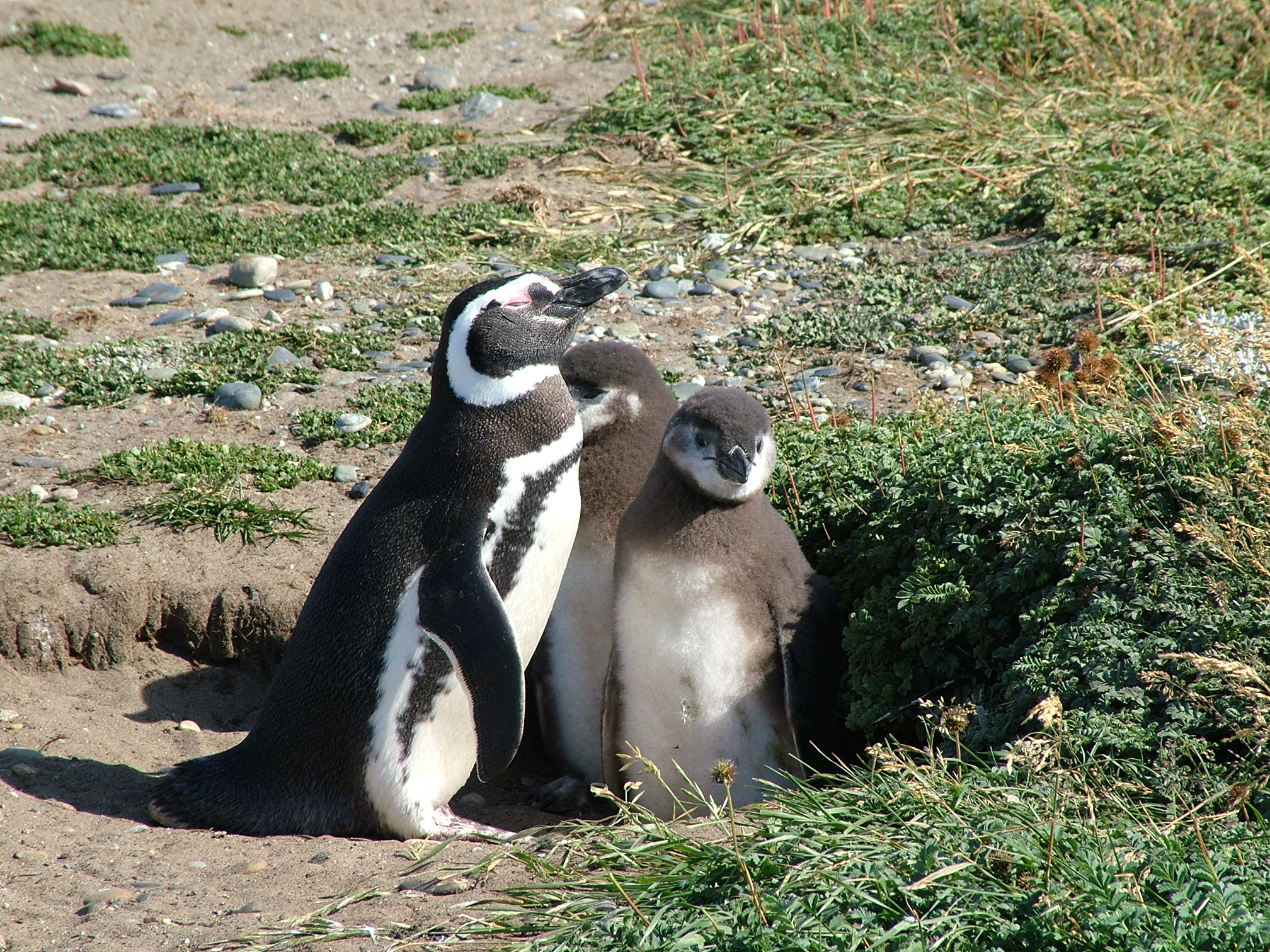 Magellanic Penguin (Spheniscus magellanicus) adult and two chicks by their burrow. Patagonia, Chili.